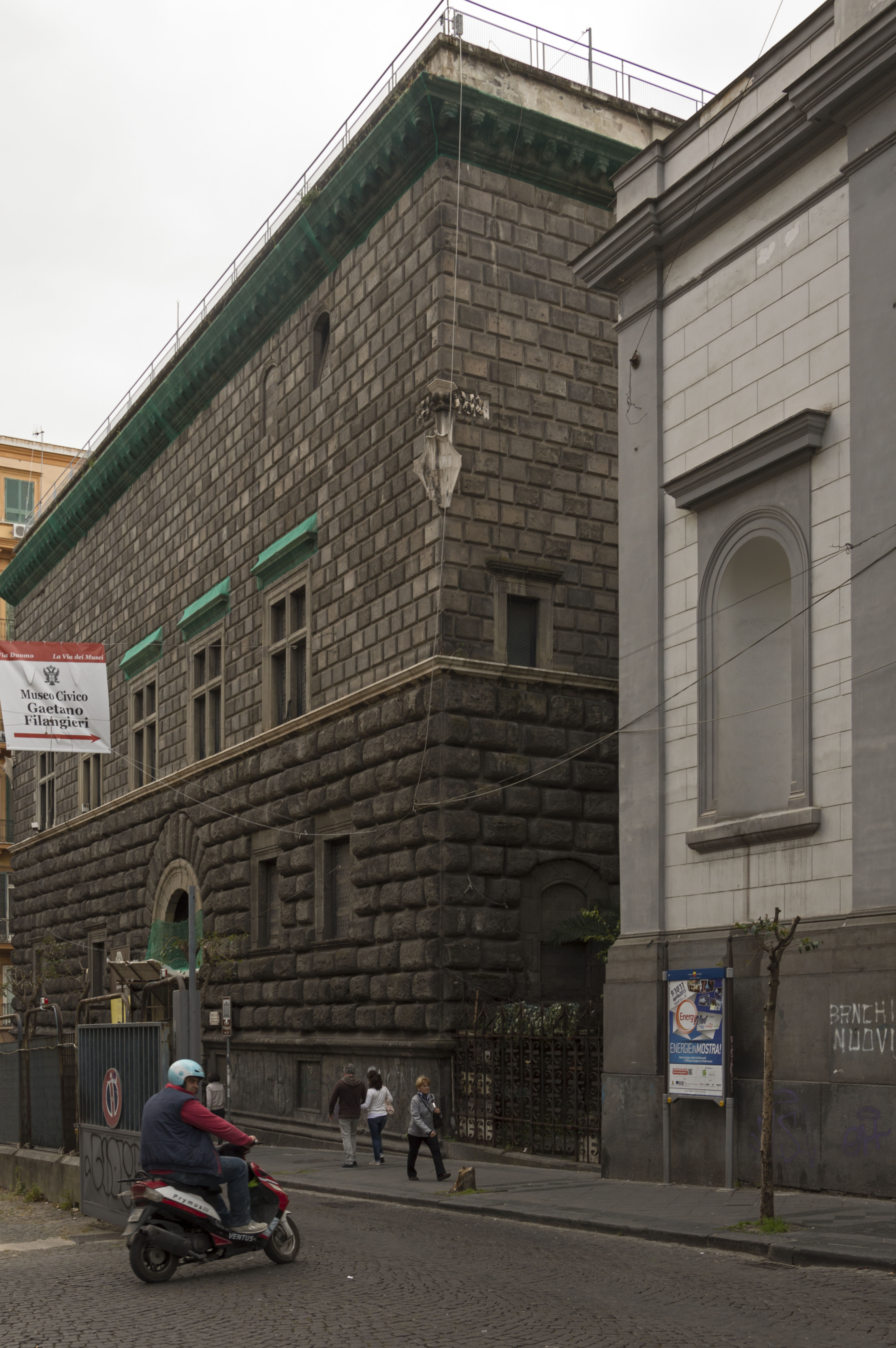 Facade